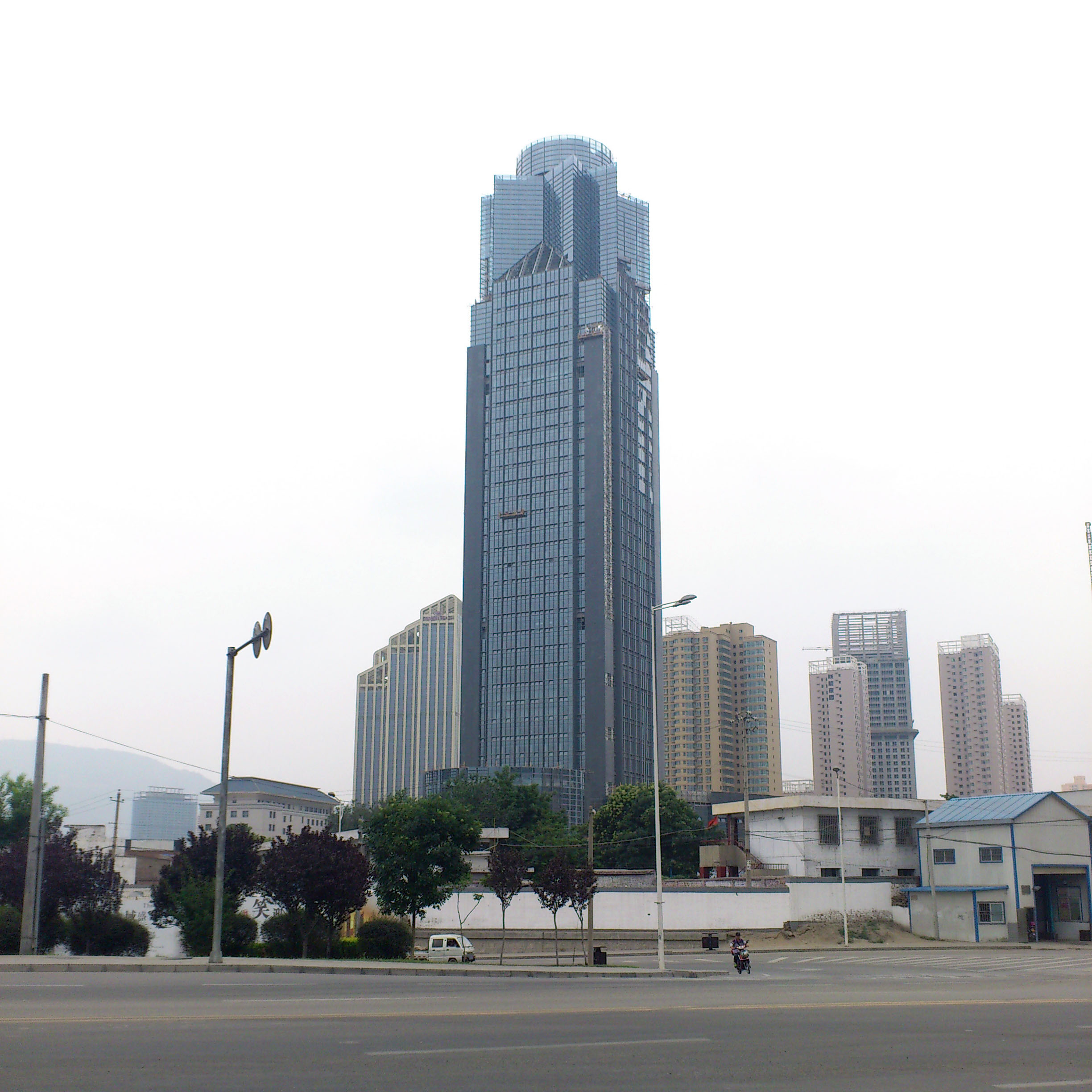 State Grid Corporation of China office in Lanzhou (under construction)